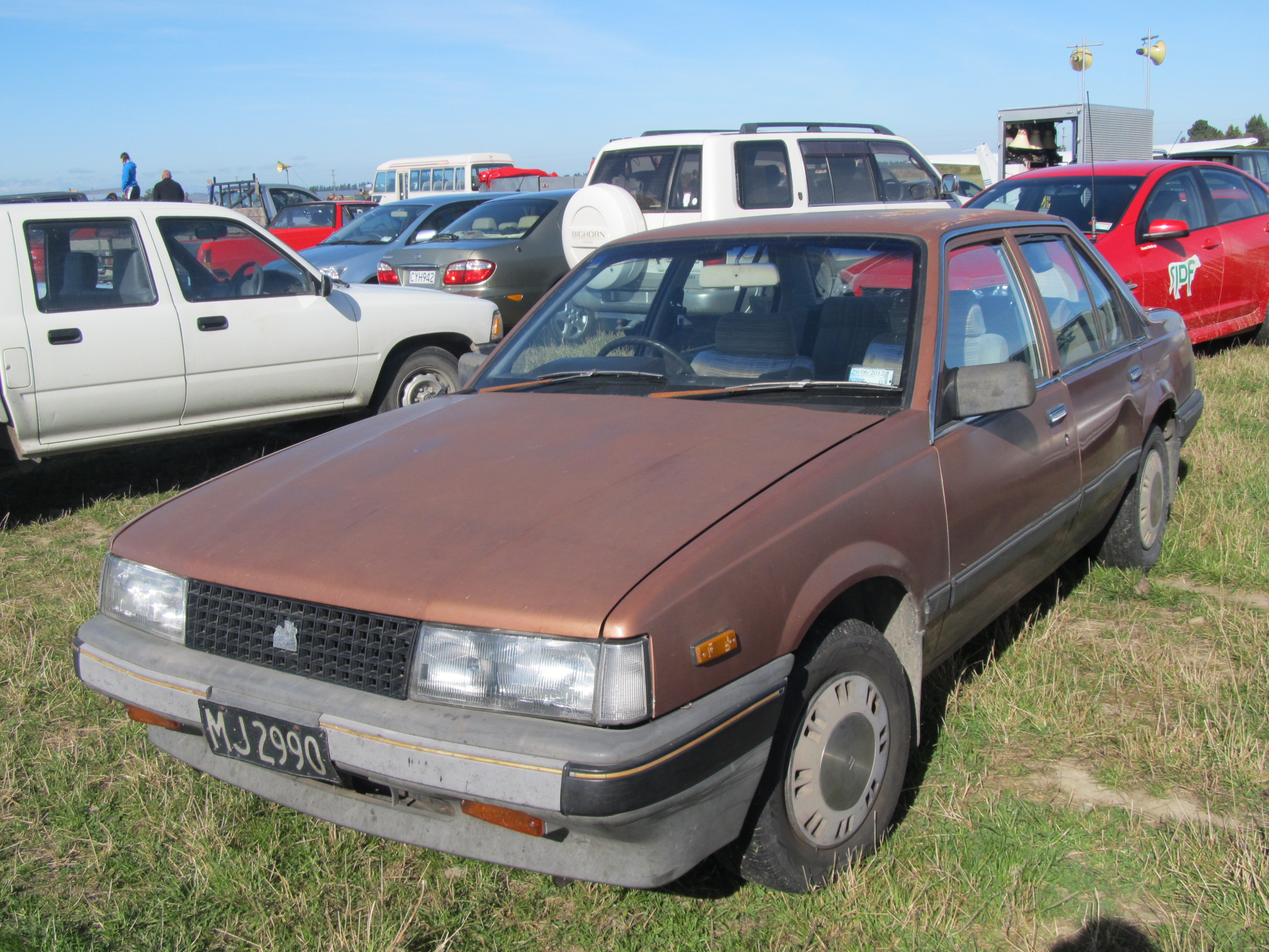 MJ2990 I absolutely love seeing these Camiras! The Cavalier influence is obvious here, although the Camira was actually based on the Japanese Isuzu Aska. They're all based on the same worldwide GM platform though! This one was fantastically original. I have heard many horror stories about these, but I personally wouldn't mind one.